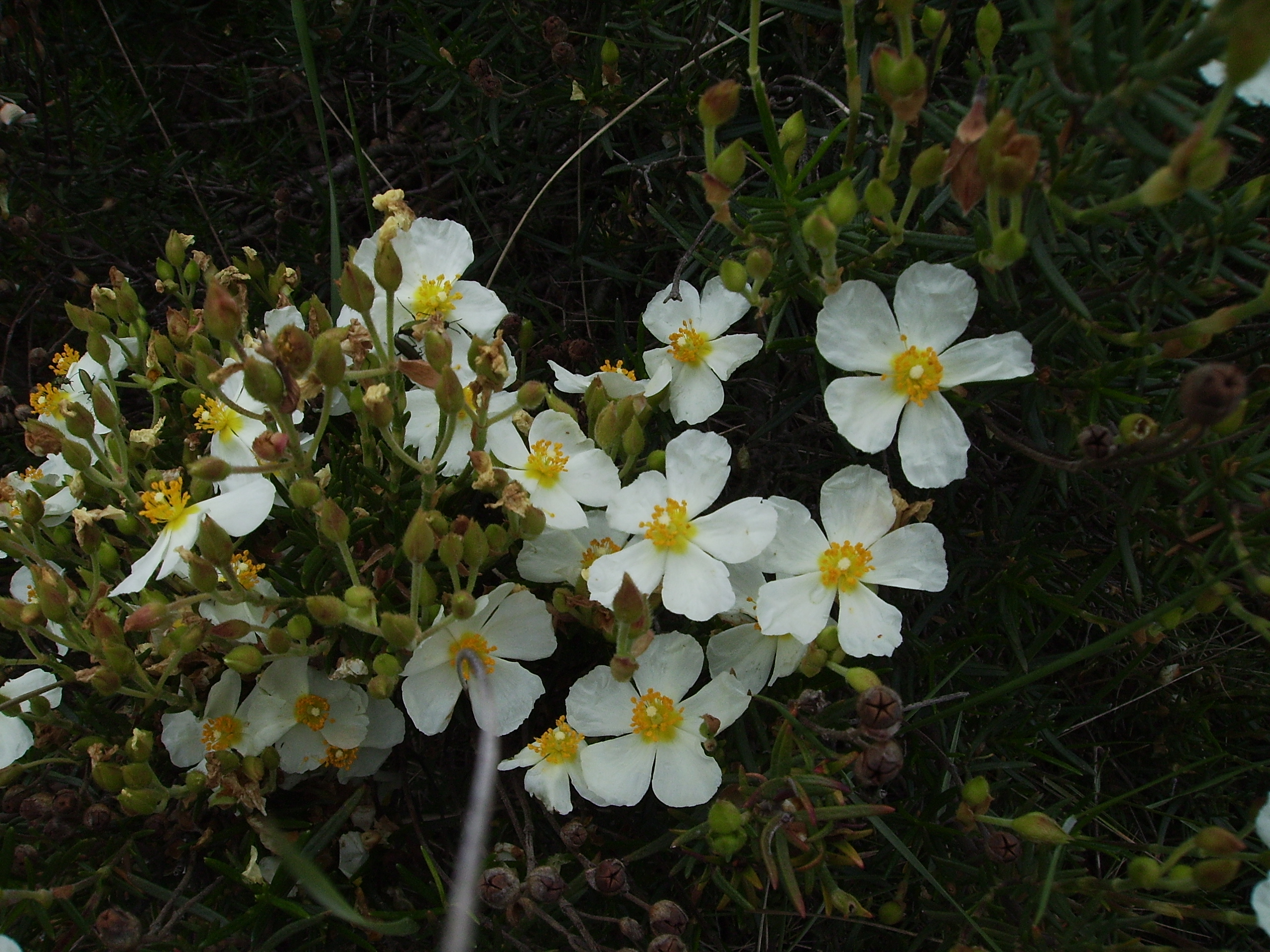 Cistus clusii flowering, Castelltallat, Catalonia